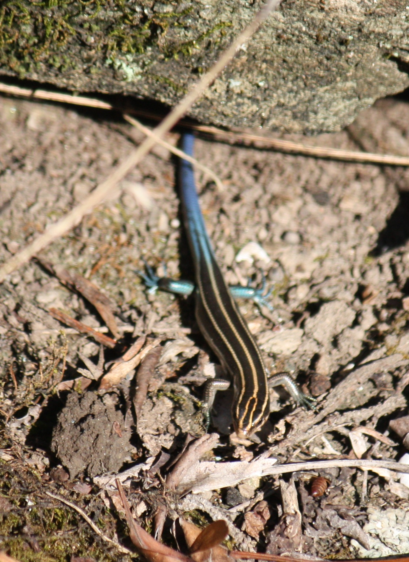 A blue tail Plestiodon elegans in Taroko canyon, Taiwan